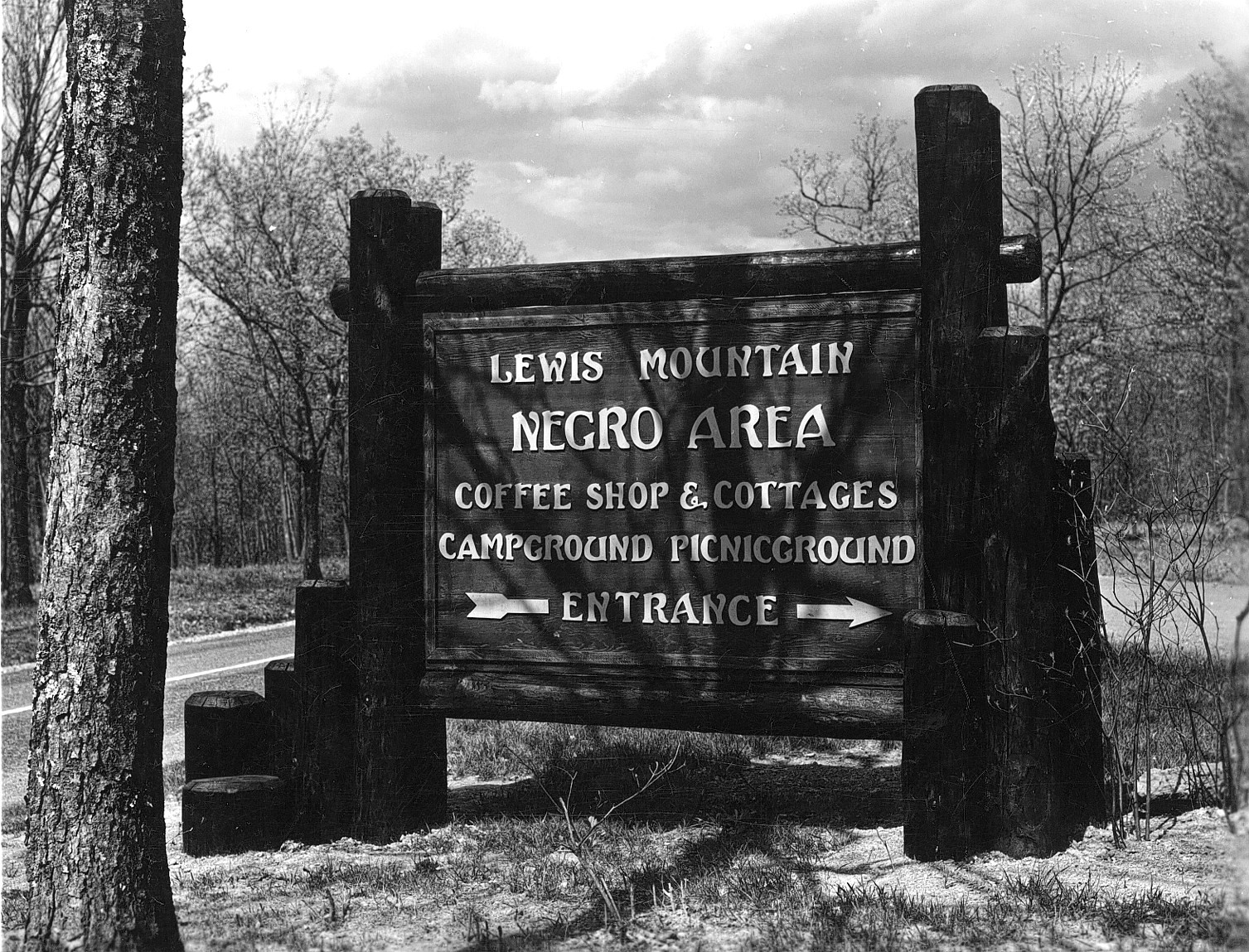 Sign advertising the Lewis Mountain Negro Area in Shenandoah National Park